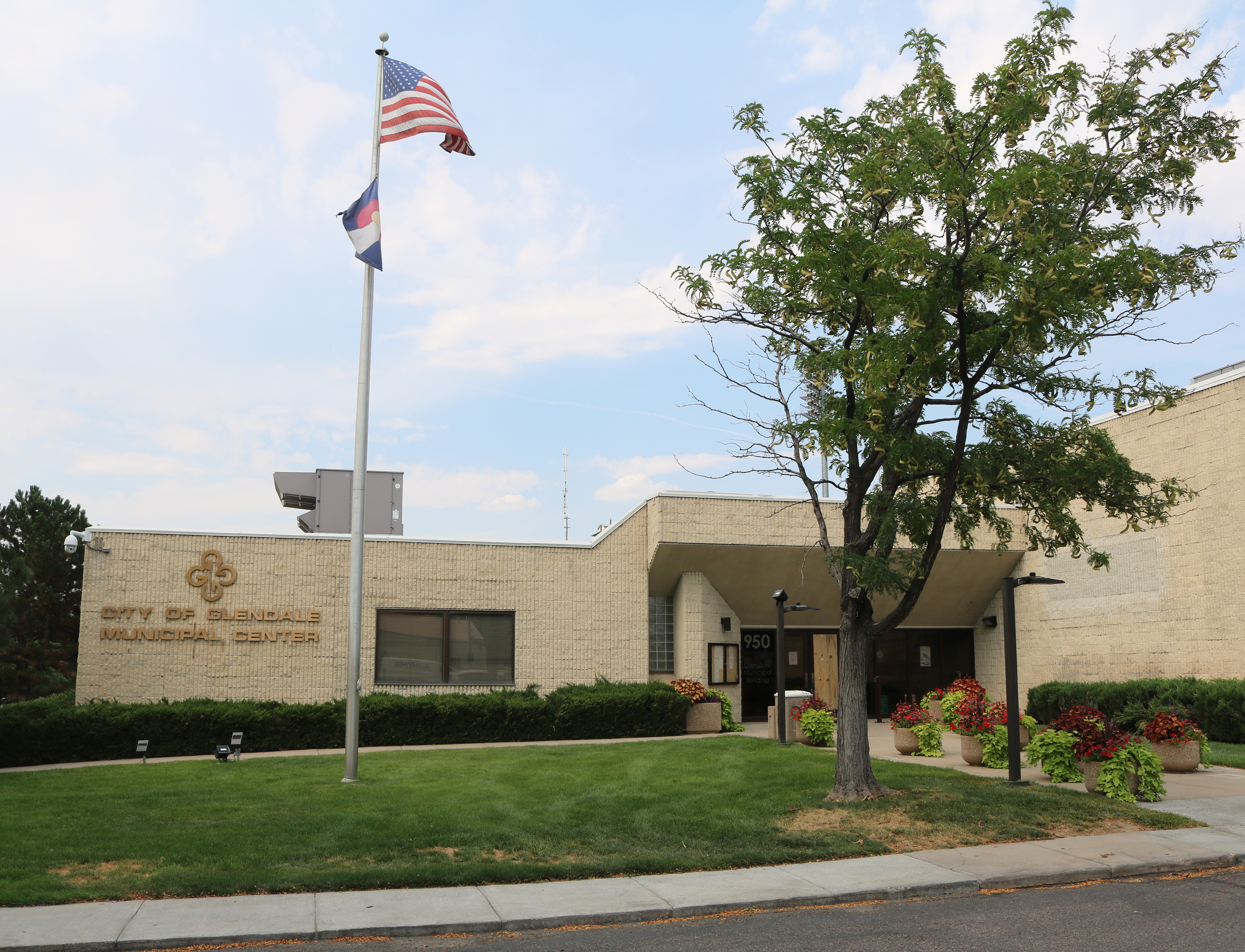 The City of Glendale (Colorado) Municipal Center, located at 950 South Birch Street in Glendale, Colorado 80246.